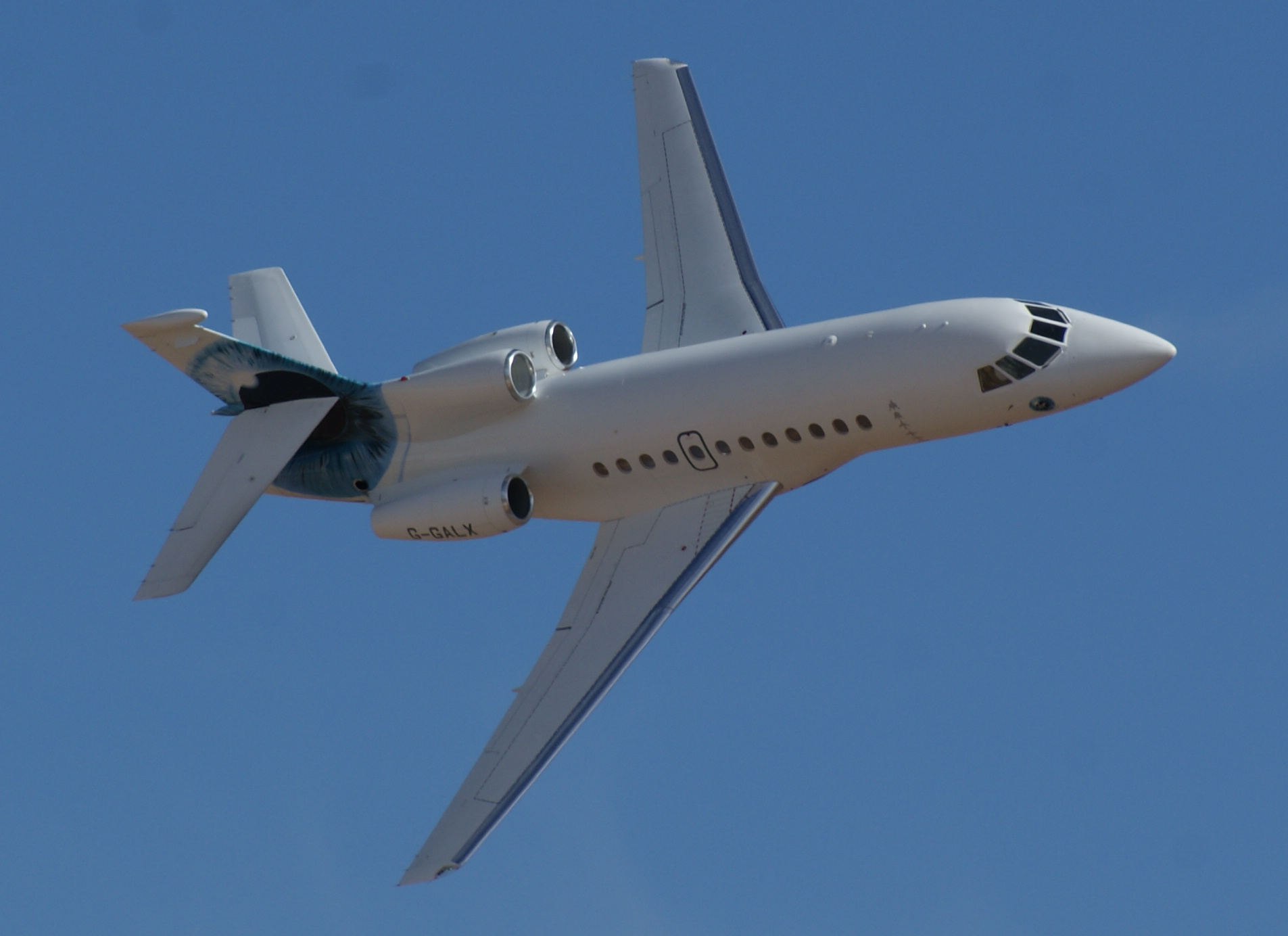 Flyby of the Dassault Falcon 900EX "Galactic Girl", operated by Charter Air Ltd for Sir Richard Branson. She is painted in a livery which promotes Branson's Virgin Galactic company.